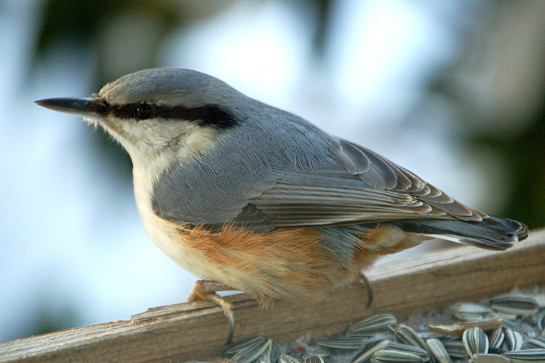 Eurasian Nuthatch - Sitta europaea europaea - Larvik, Norway